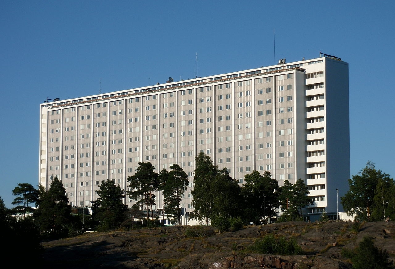 Meilahti Hospital (Helsinki, Finland)